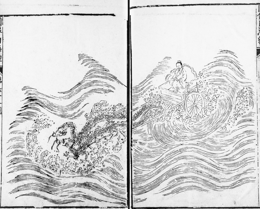 This image depicts Bingyi (冰夷), also known as Hebo (河伯).